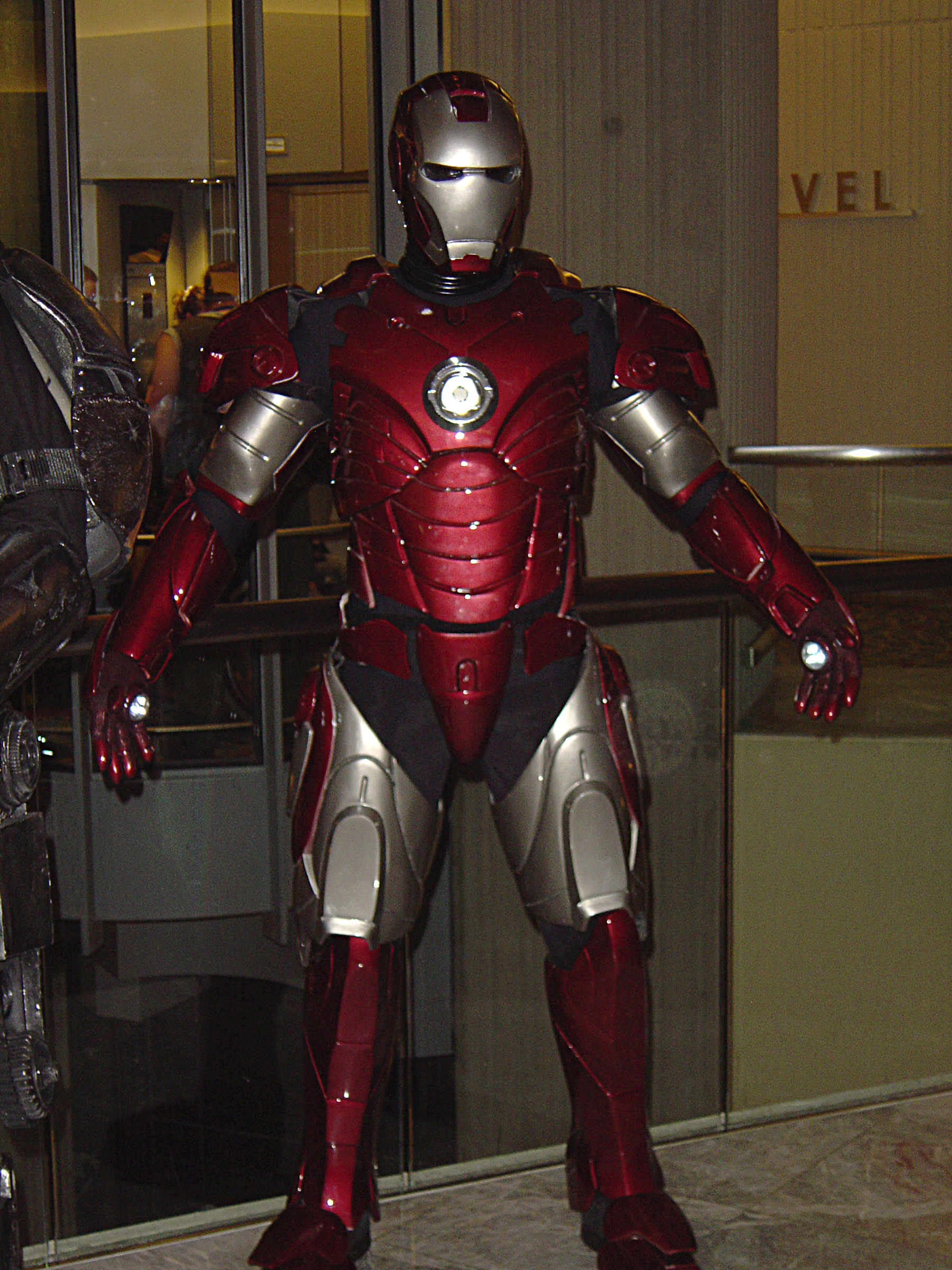 Cosplay of Iron Man, Dragon Con 2008, Downtown, Atlanta, USA